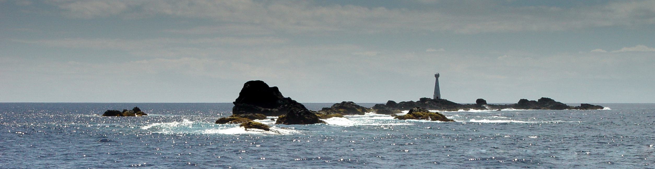 Formigas Islets - no watermark